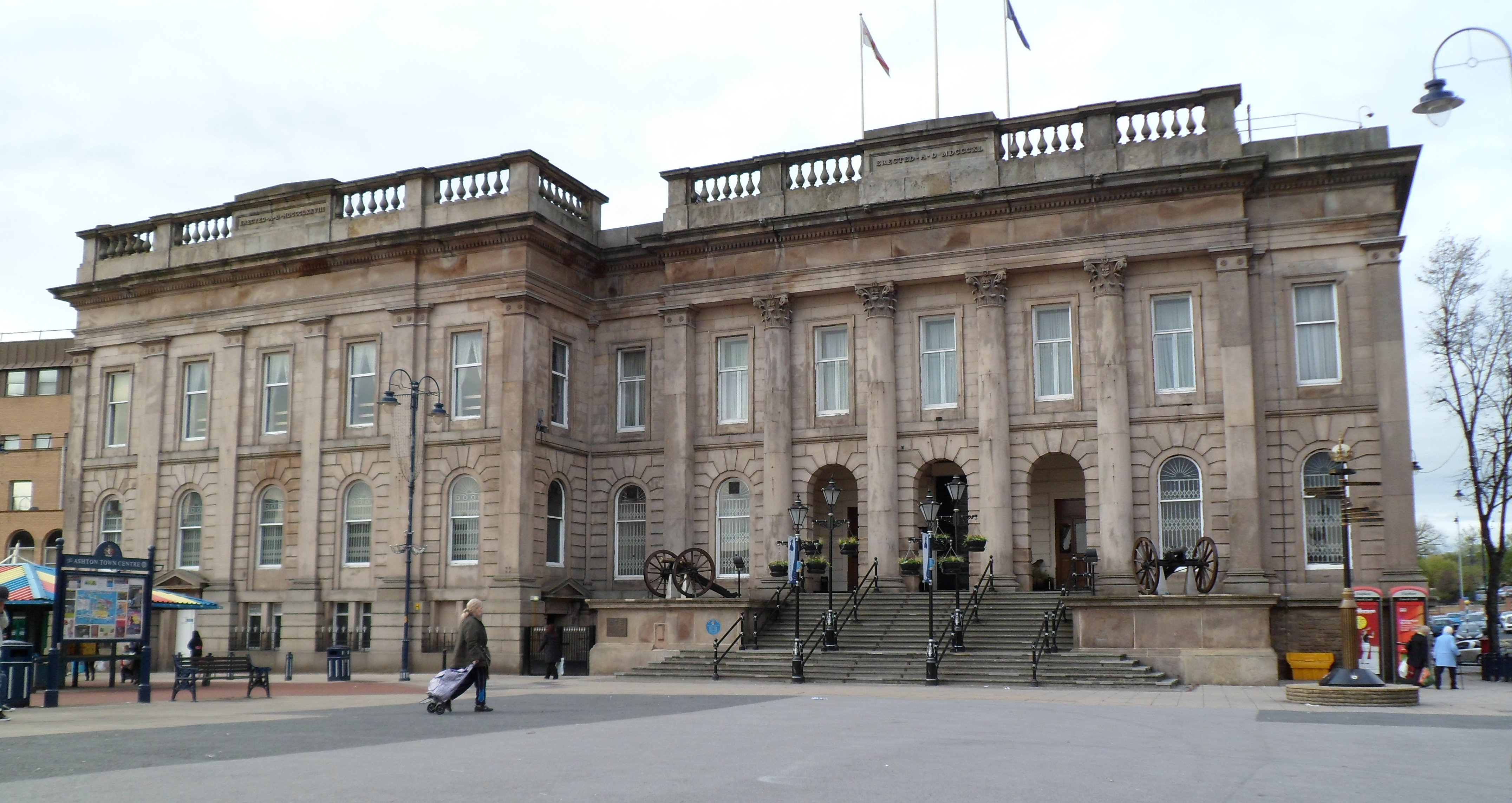 Ashton-under-Lyne, Town Hall, status: October 2011